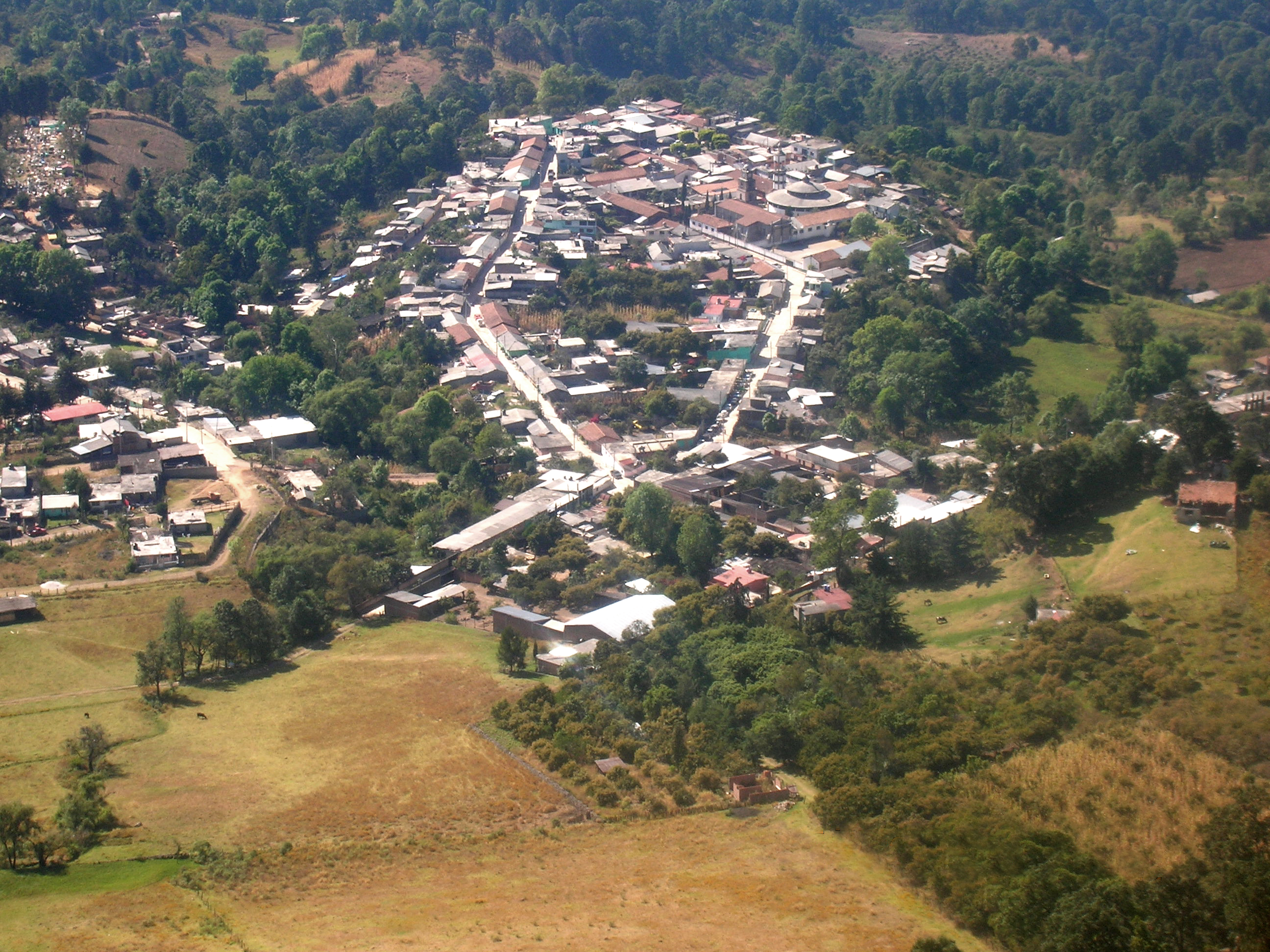 A view of the village of El Caracol in Michoacán state, Mexico. picture taken by Padilla G